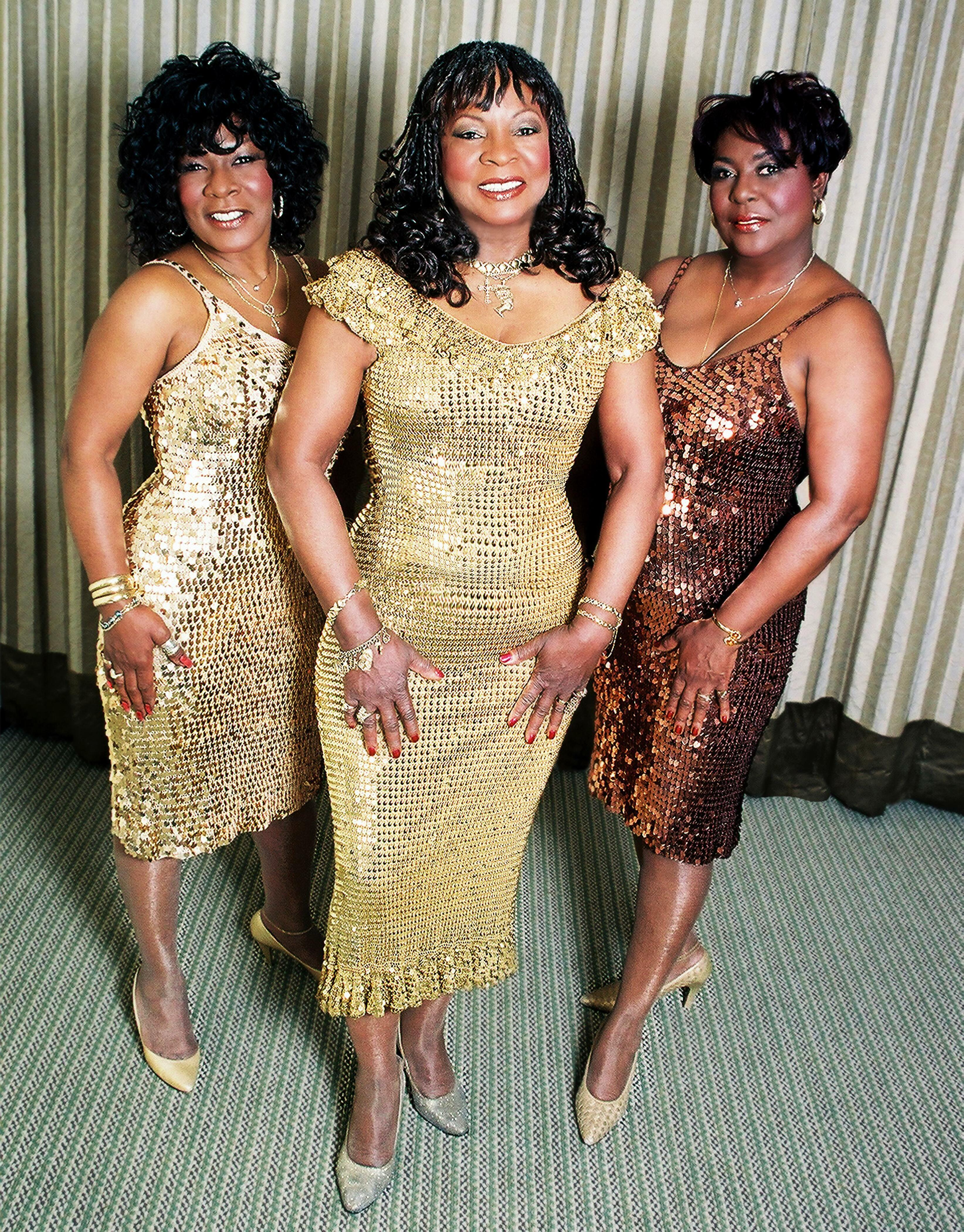 Motown 45, Los Angeles, 2004